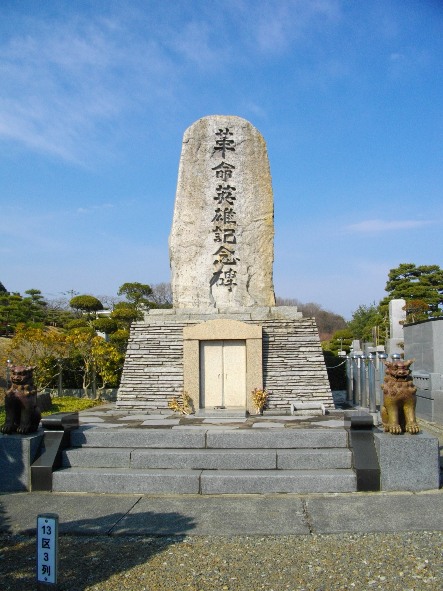 Monument to the Revolutionary Heroes